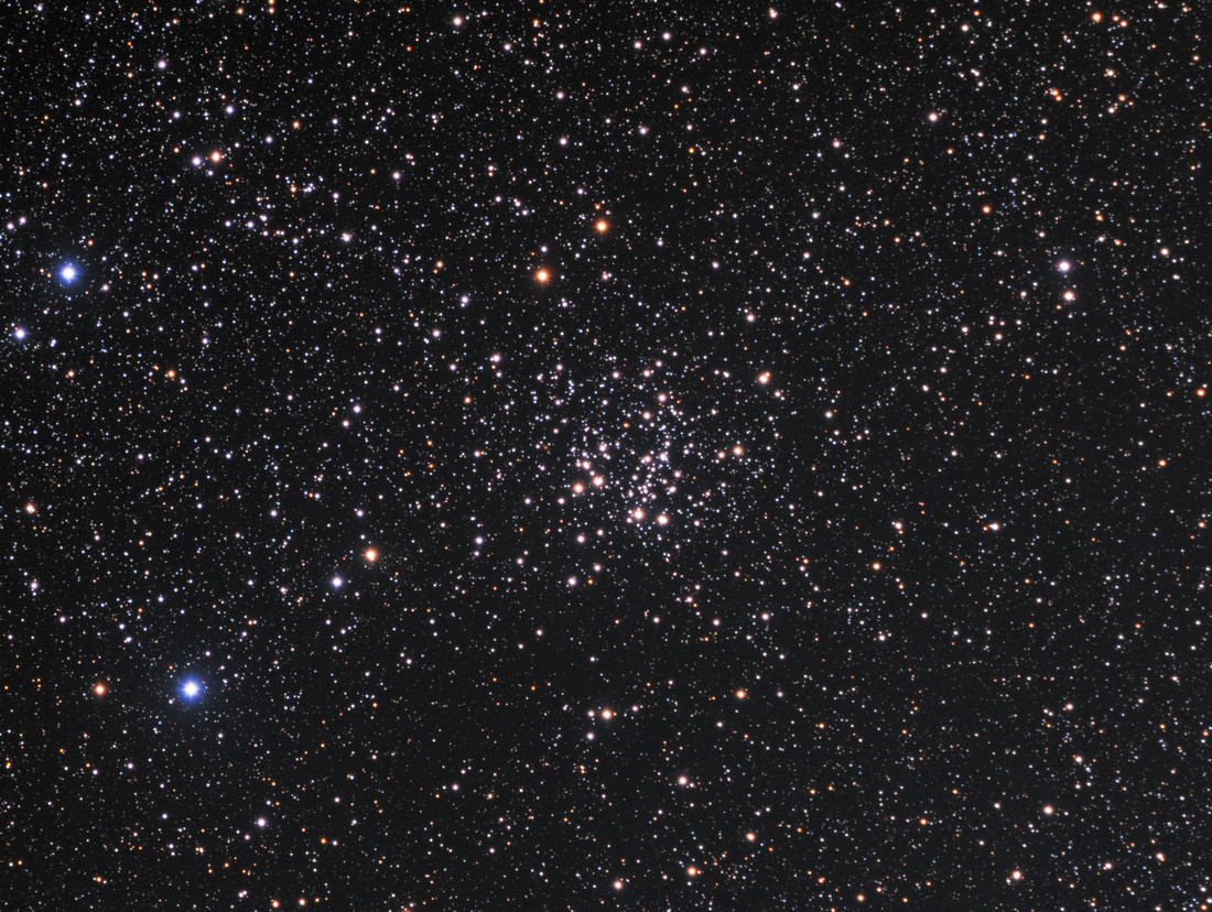 Open Star Cluster NGC663 in Cassiopeia